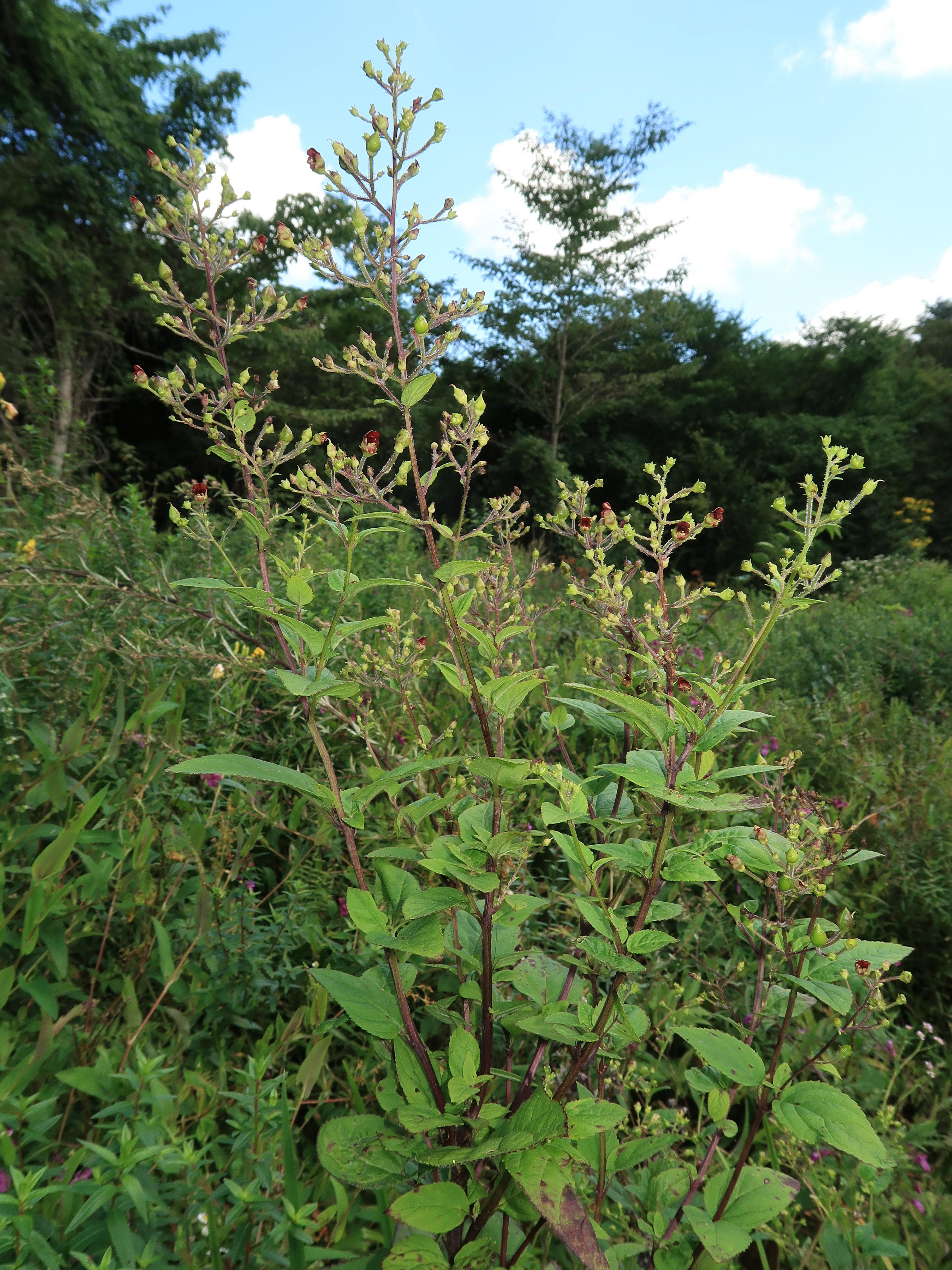 Scrophularia kakudensis, Hama-dori area, Fukushima pref., Japan